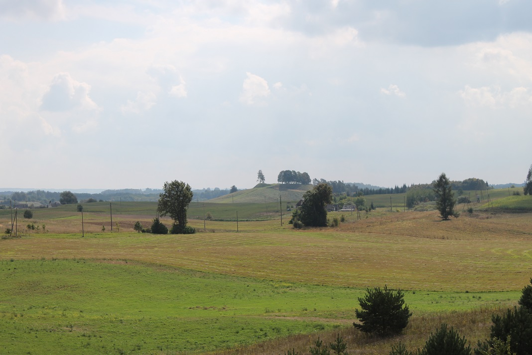 Rudamina Hillfort, Lazdijai district municipality, LithuaniaLietuvių: Rudaminos piliakalnis, Lazdijų rajono savivaldybė, Lietuva